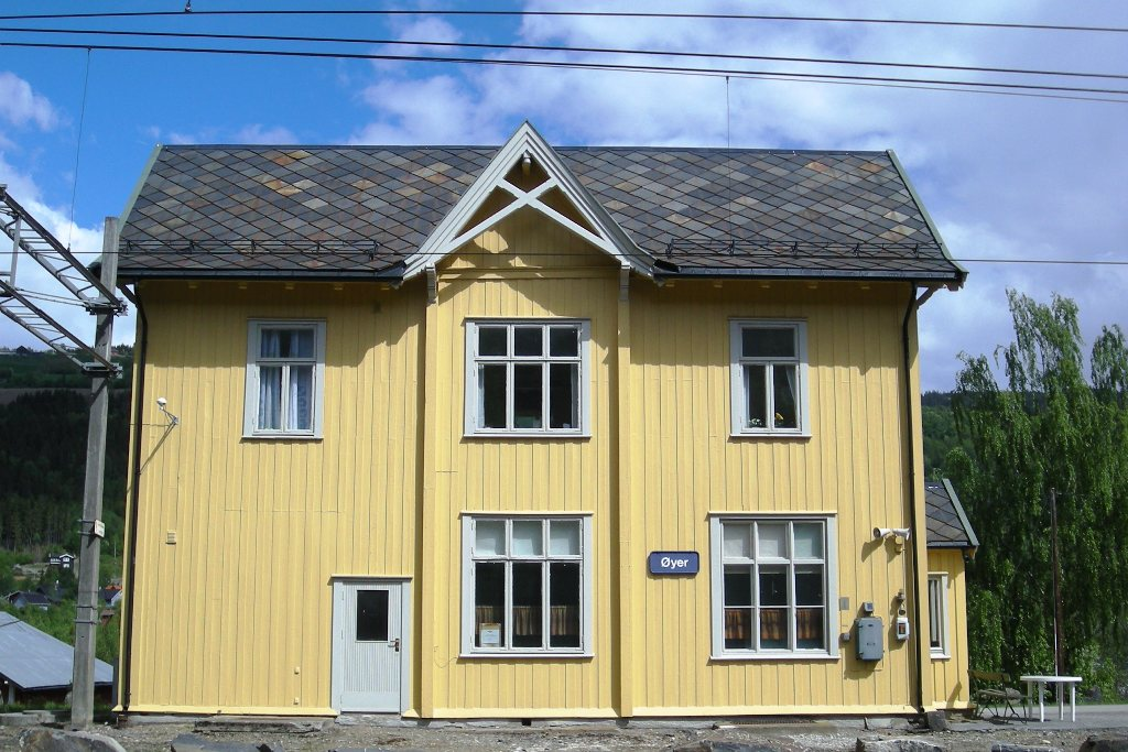 Øyer station on the Dovre line